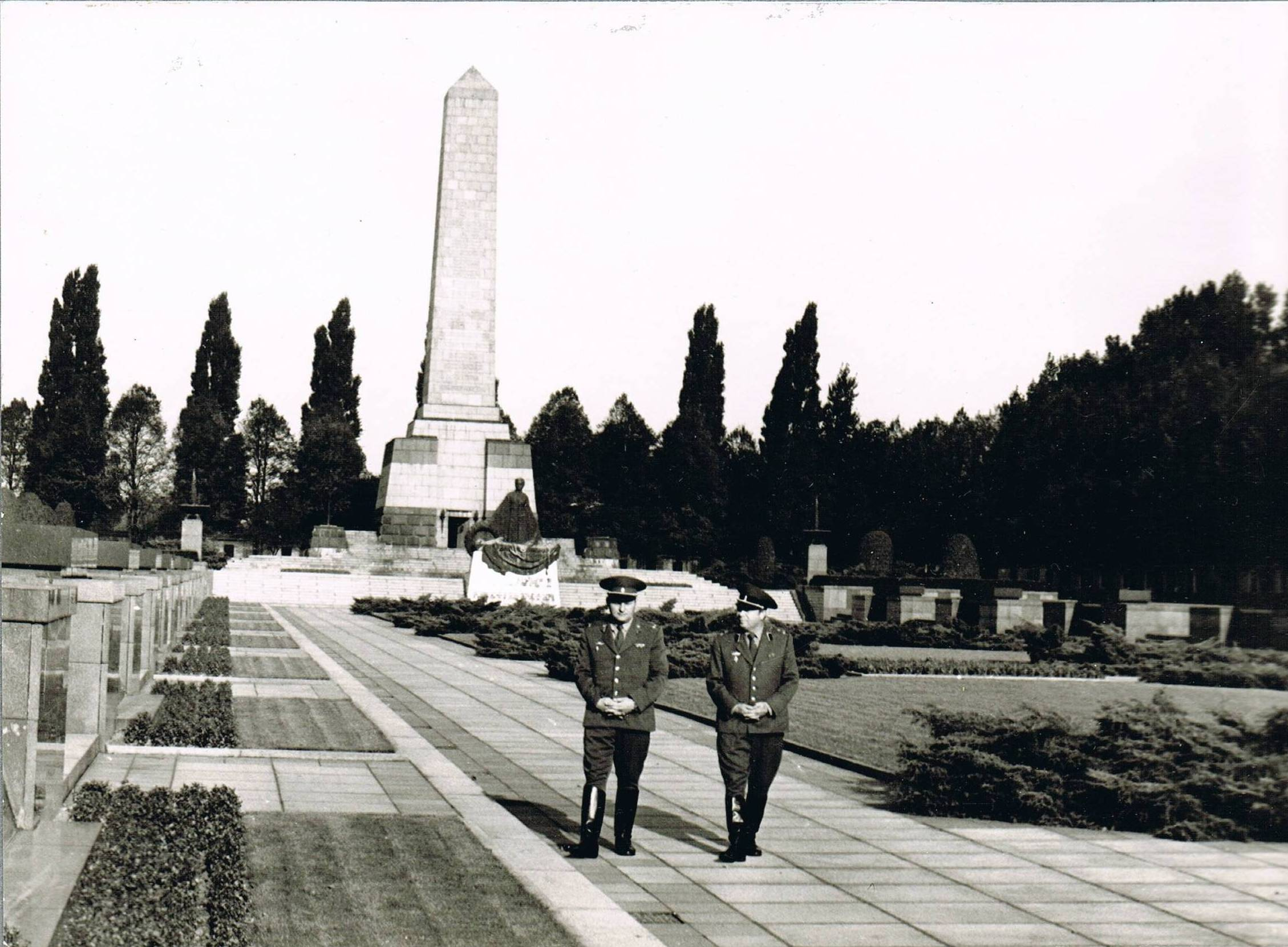 Soviet War Memorial (Schönholzer Heide) Berlin.